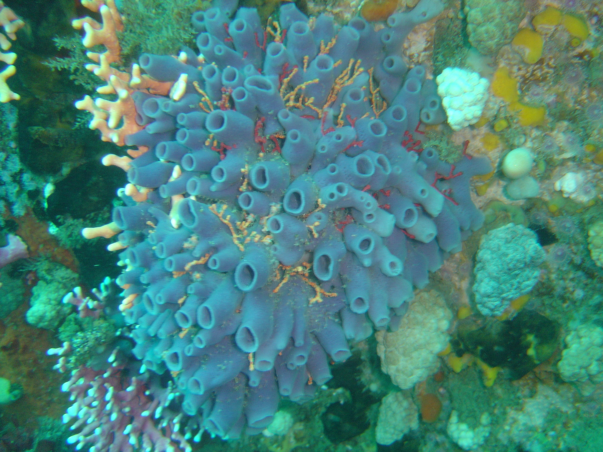 Blue sponge at Coral Gardens (Oudekraal) reef at south Oudekraal, on the Atlantic seaboard of the Cape Peninsula, South Africa.